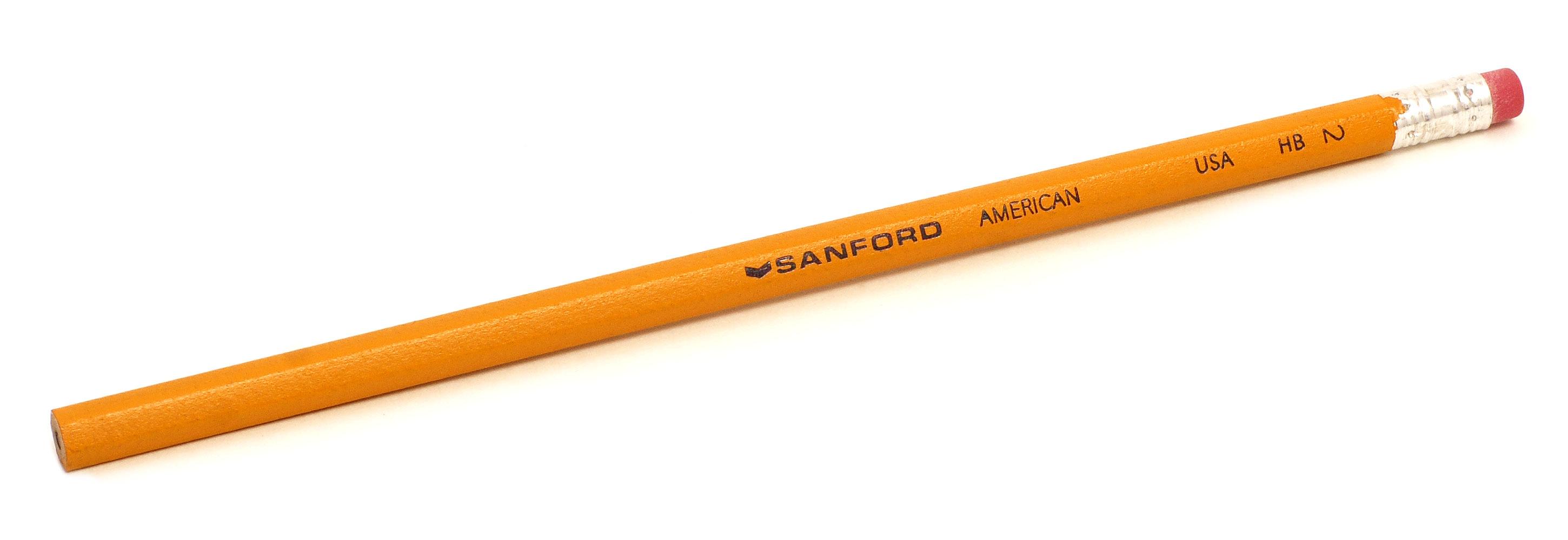 A standard number 2 pencil, unsharpened. Made by Sanford.